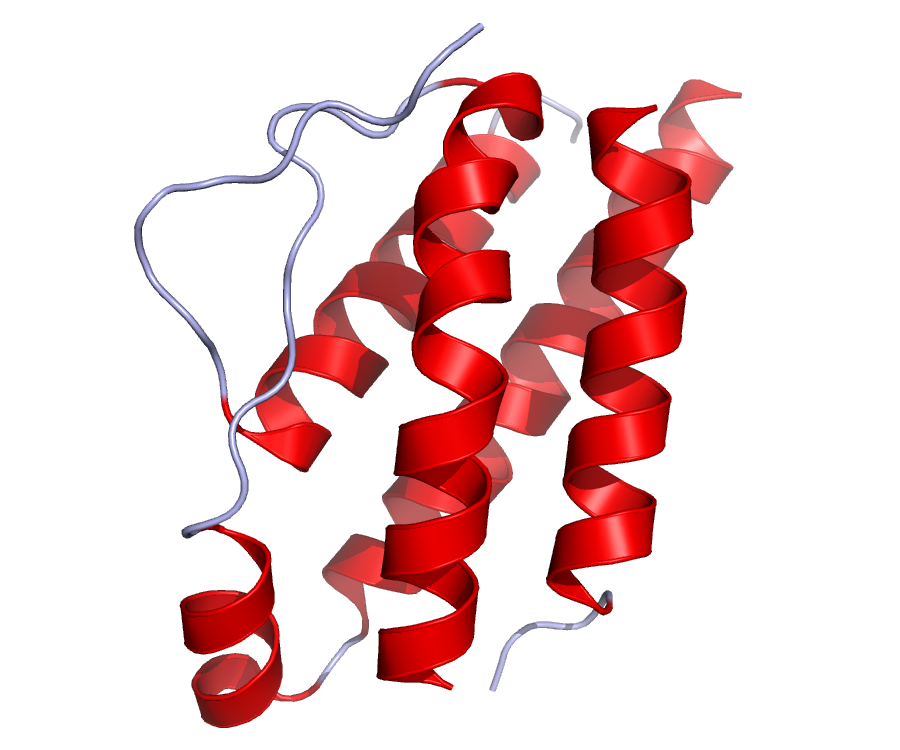 Crystal structure of IL-2 as published in the Protein Data Bank (PDB: 1M47)